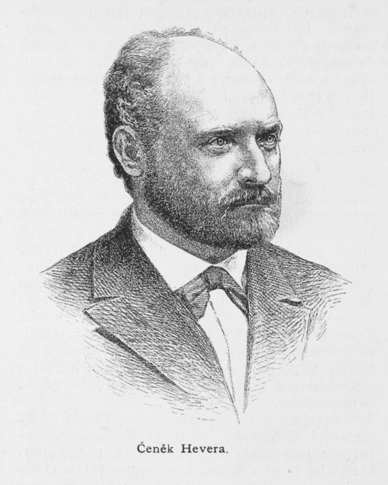 Portrait of Čeněk Hevera (1836-1896), Czech politician and business writer.